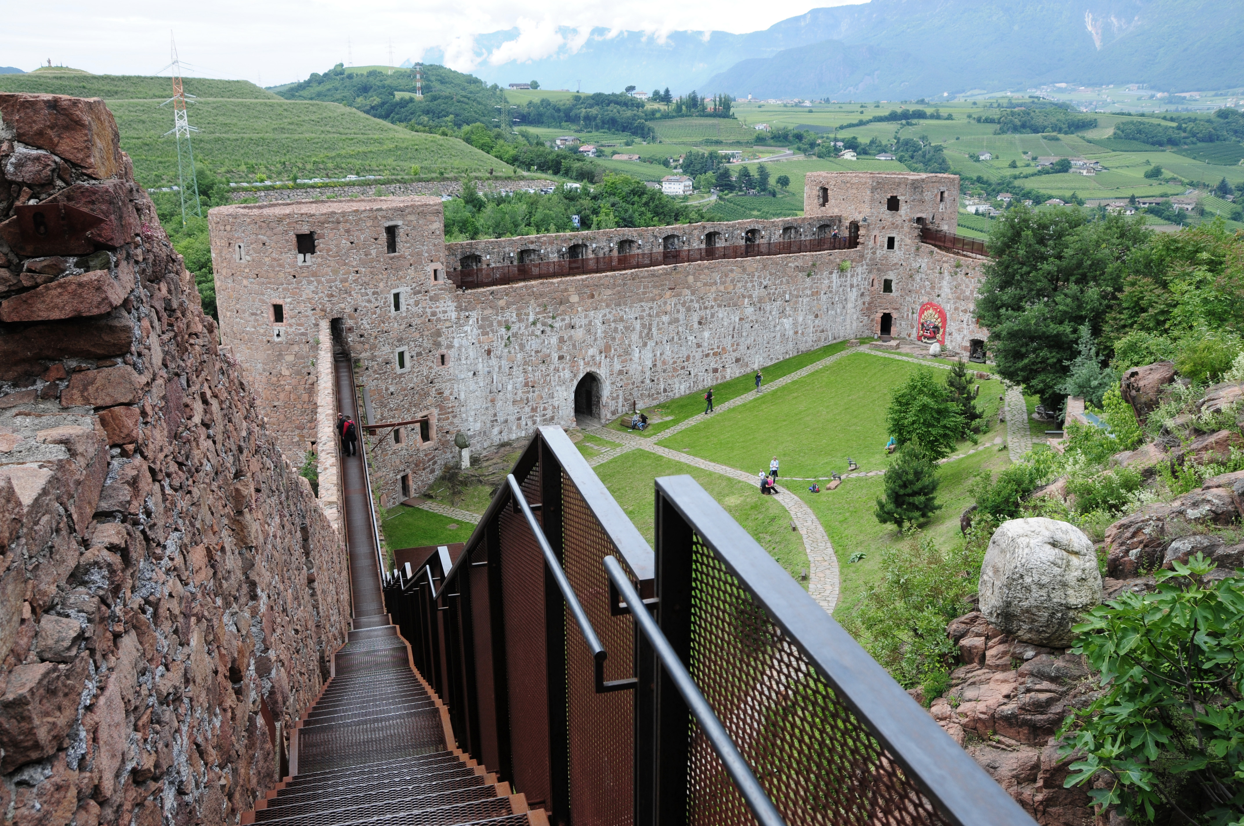 Castle Sigmundskron (Firmian), Bozen, South Tyrol